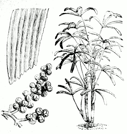 Figure from book